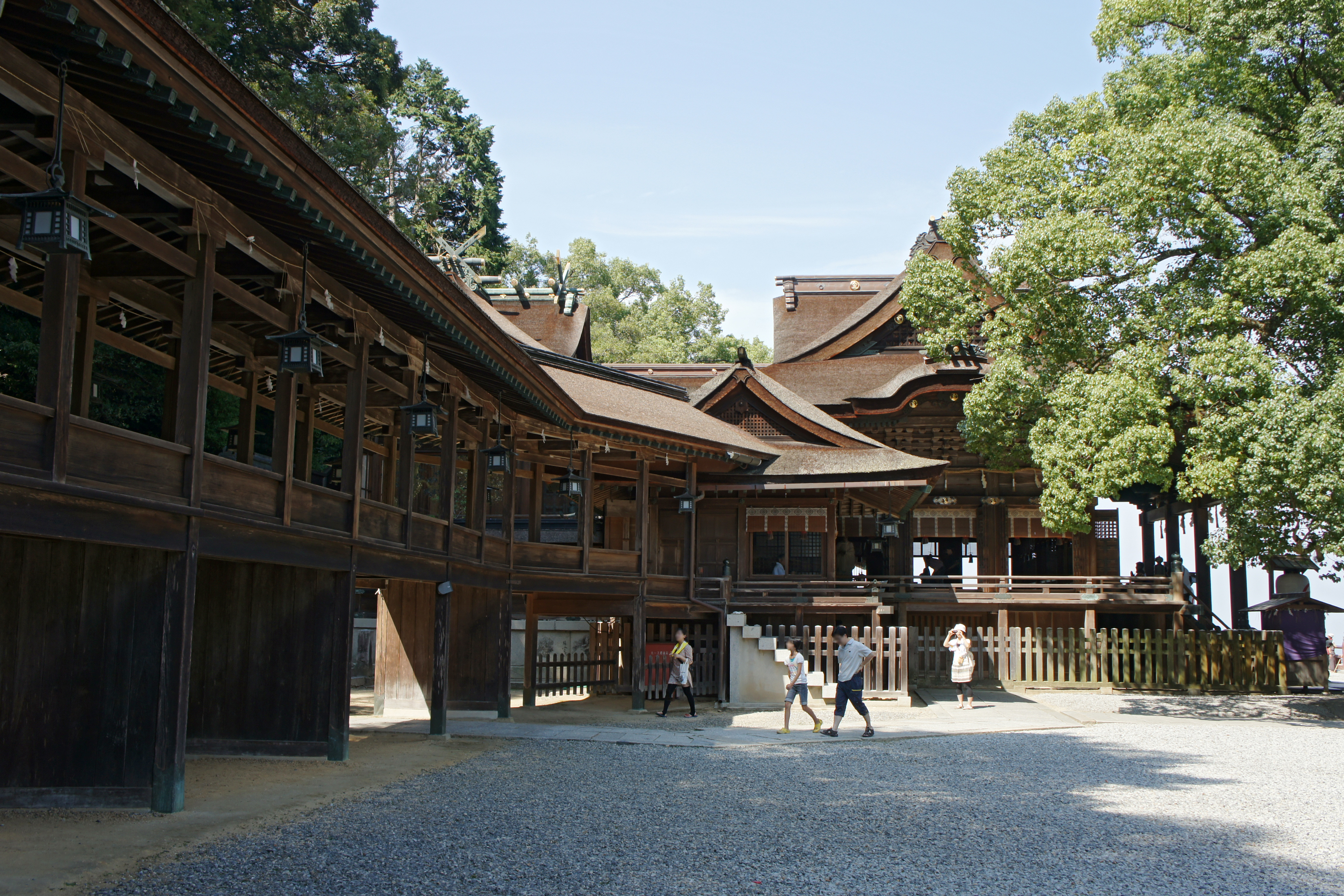 Kotohira Gu in Kotohira, Kagawa prefecture, Japan.